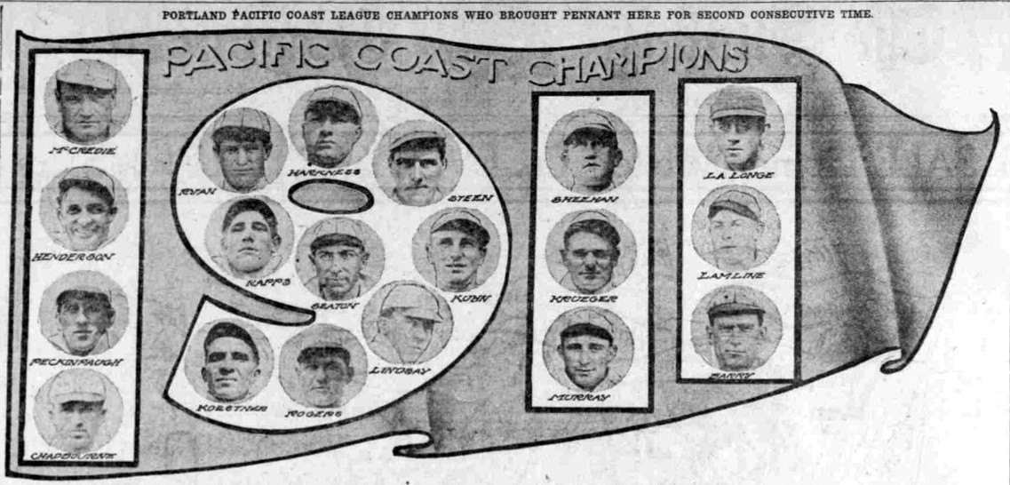 Head shots of members of the Portland Beavers baseball team from the October 22, 1911 edition of The Sunday Oregonian.